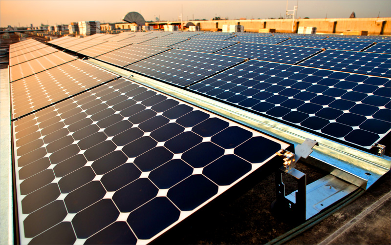 The solar array atop the Vietnam Assembly and Test Factory in Ho Chi Minh City is the biggest operating solar facility in Vietnam. Intel Free Press story: Intel Goes Solar in Vietnam. Vietnam's largest solar facility joins Israel installation as second Intel solar array outside U.S.